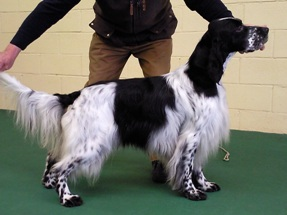 Oslo, English Setter